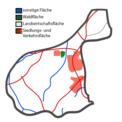 Map of land use of town of Spenge, Kreis Herford (Germany).